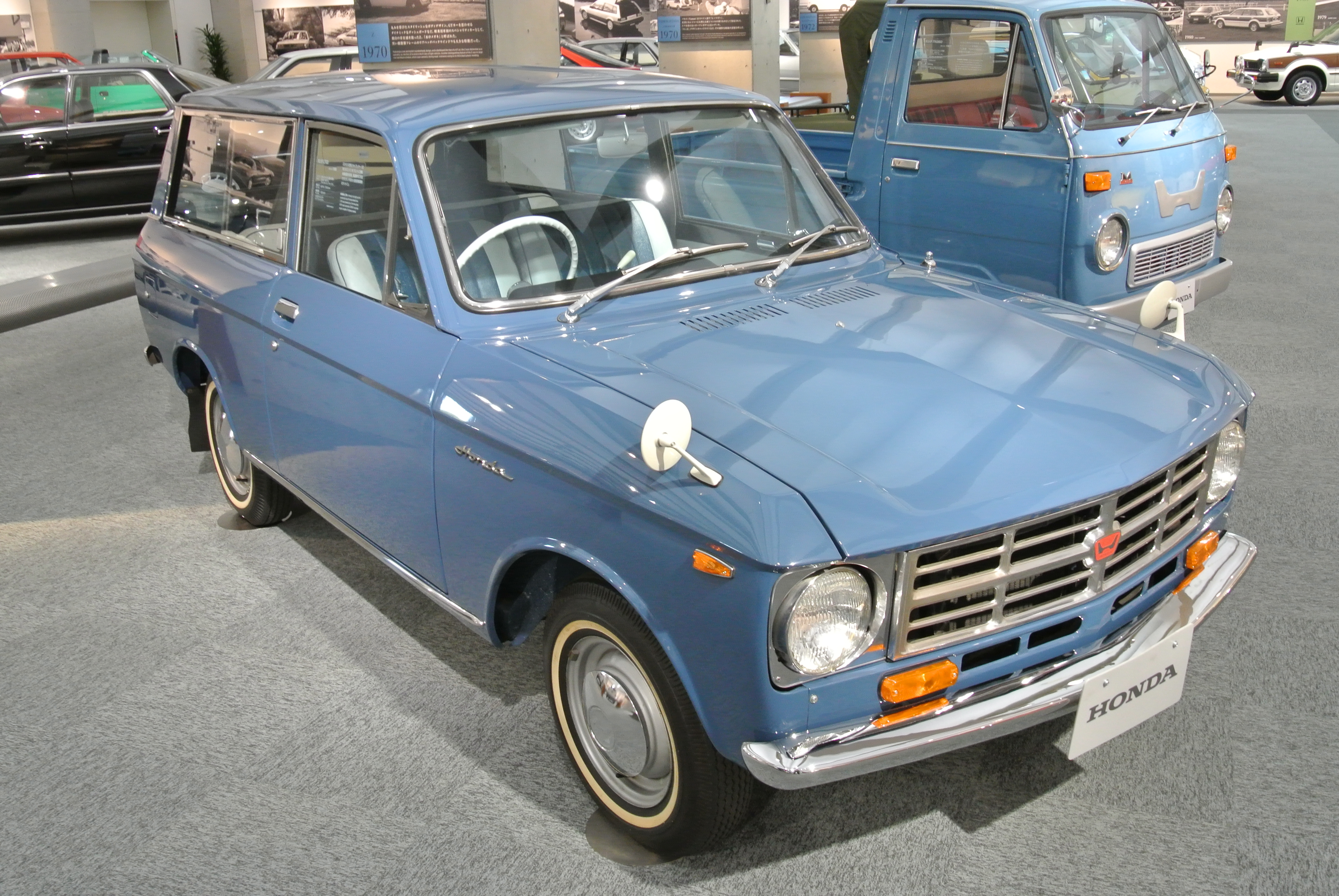 1965 Honda L700 in the Honda Collection Hall.